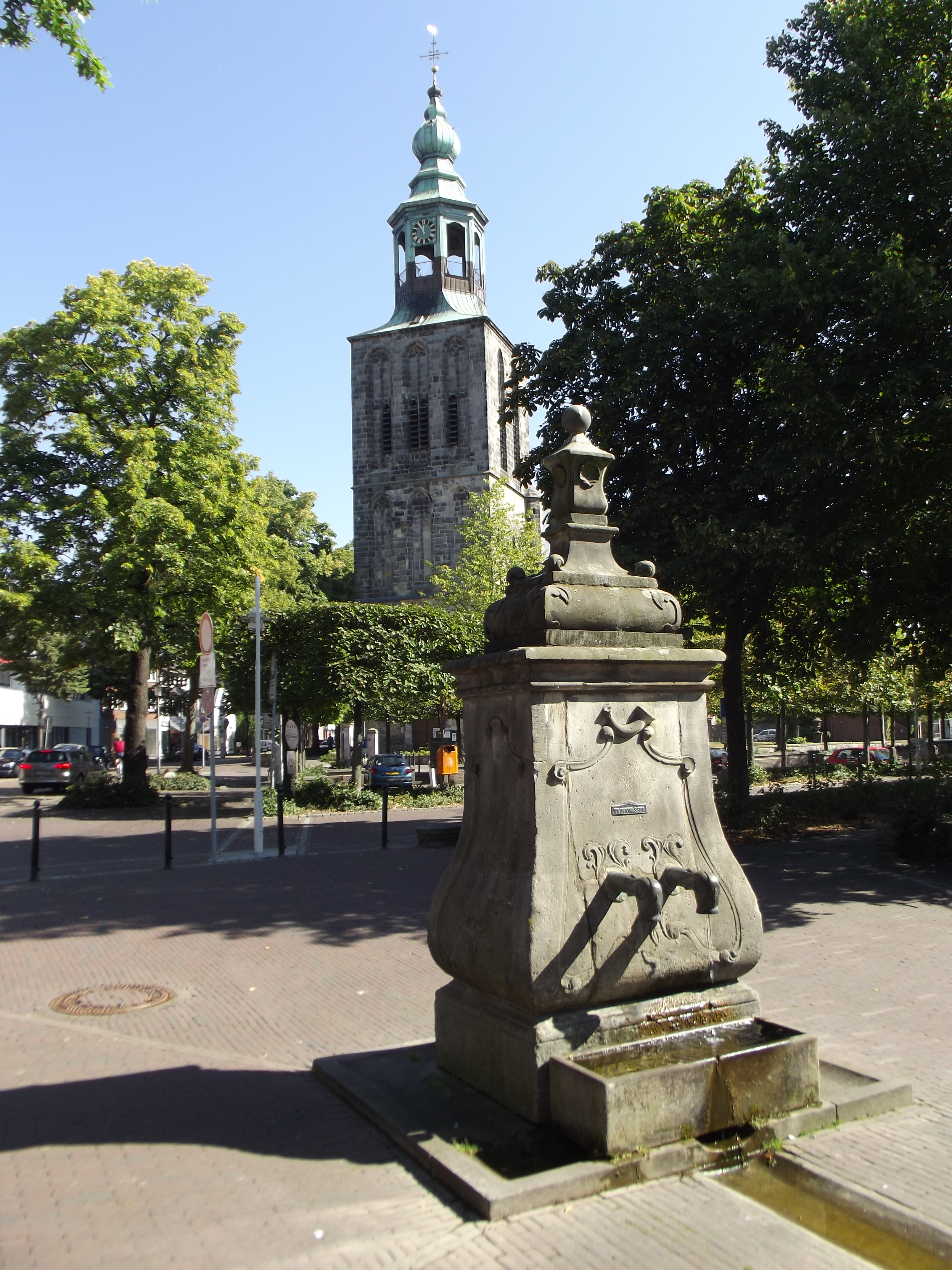 An ancient, restored well and the water has drinking quality